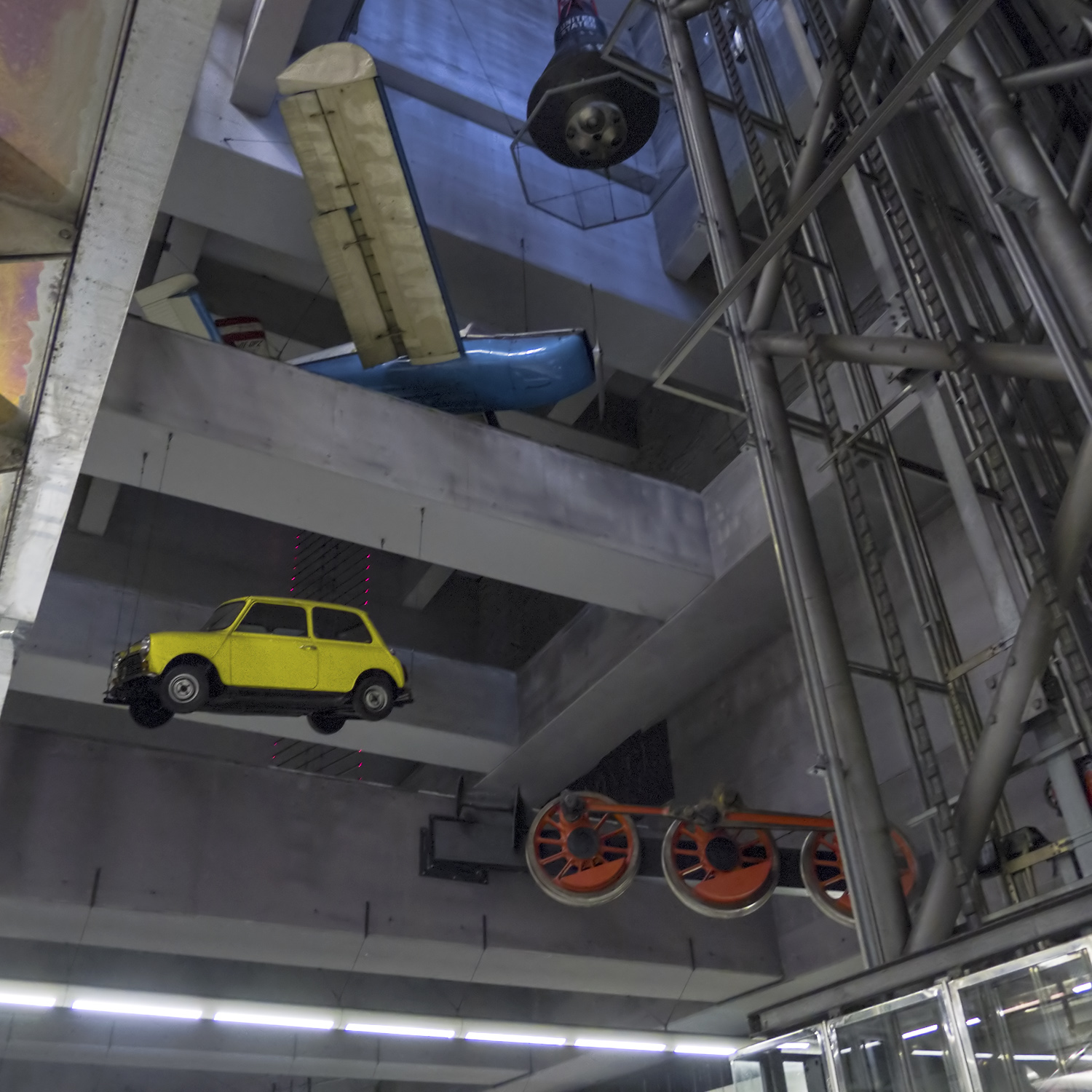 Underground station U-Bahnhof Schweglerstraße (Wien) in Vienna